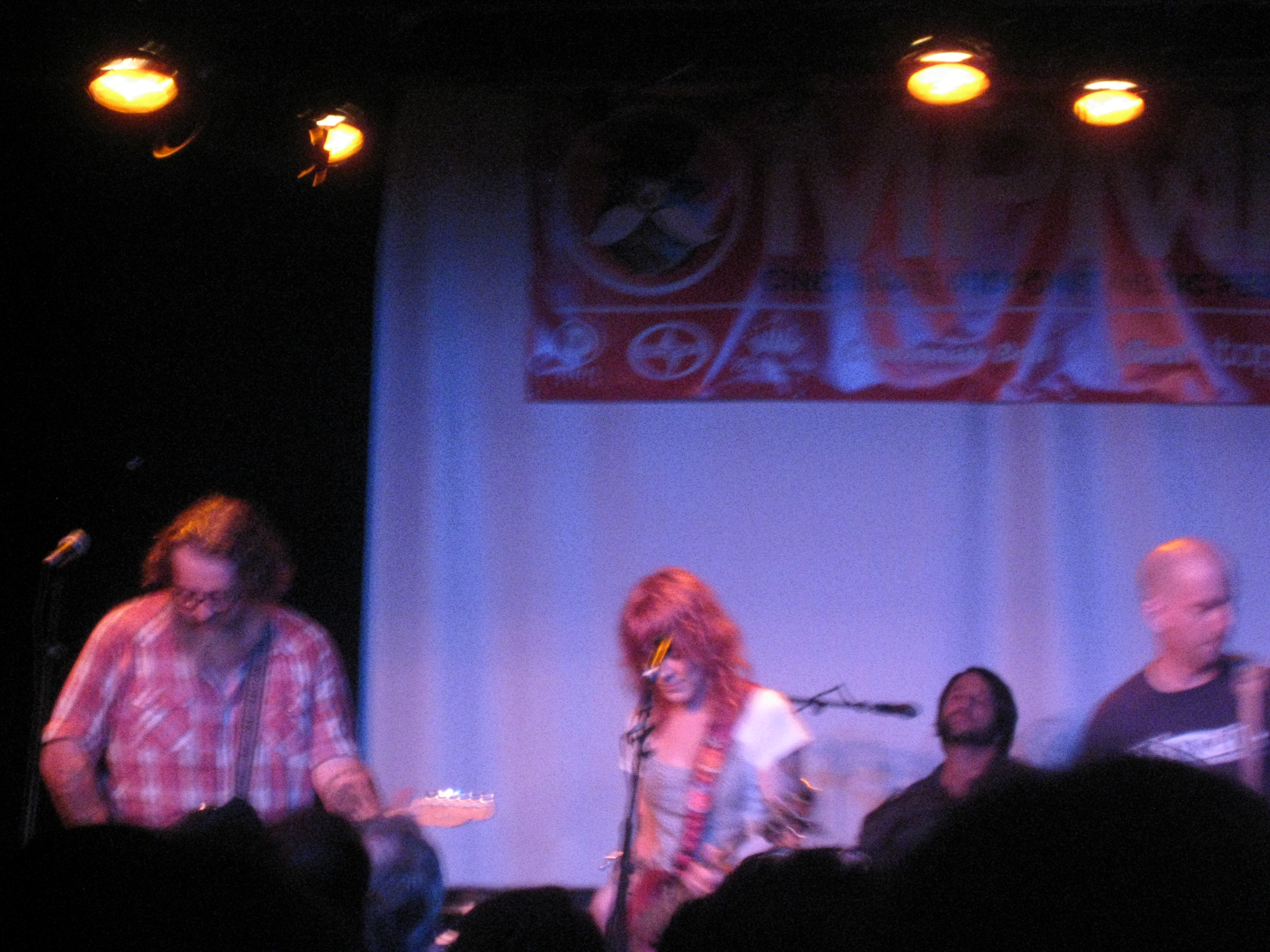 Wussy performing at MidPoint Music Festival in Cincinnati, Ohio. L to R: Chuck Cleaver, Lisa Walker, Joe Klug (back), Mark Messerly